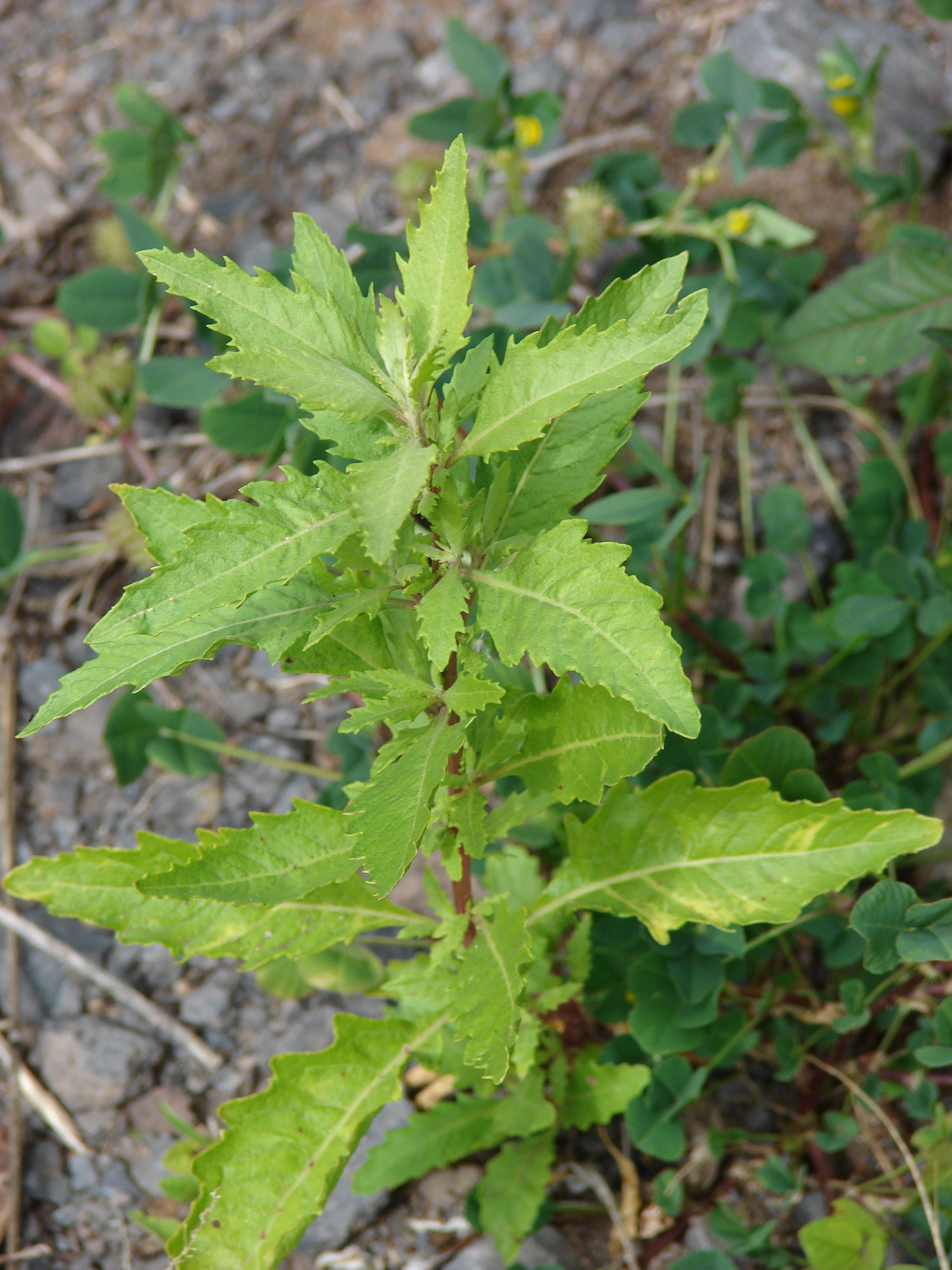 Dysphania ambrosioides (L.) Mosyakin & Clemants (Syn.: Chenopodium ambrosioides L.) (habit). Location: Maui, Kula